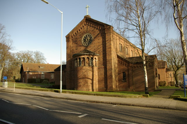 Parish church of St Francis of Assisi, Linden Road, Bournville, Birmingham, seen from the southwest